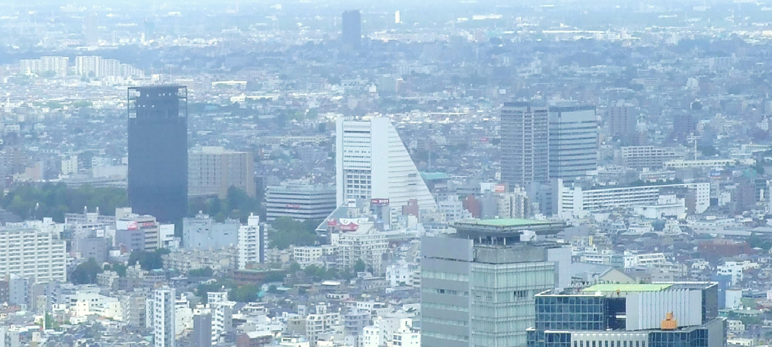 Skyline of Nakano